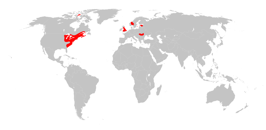 Eurypterus known collection sites